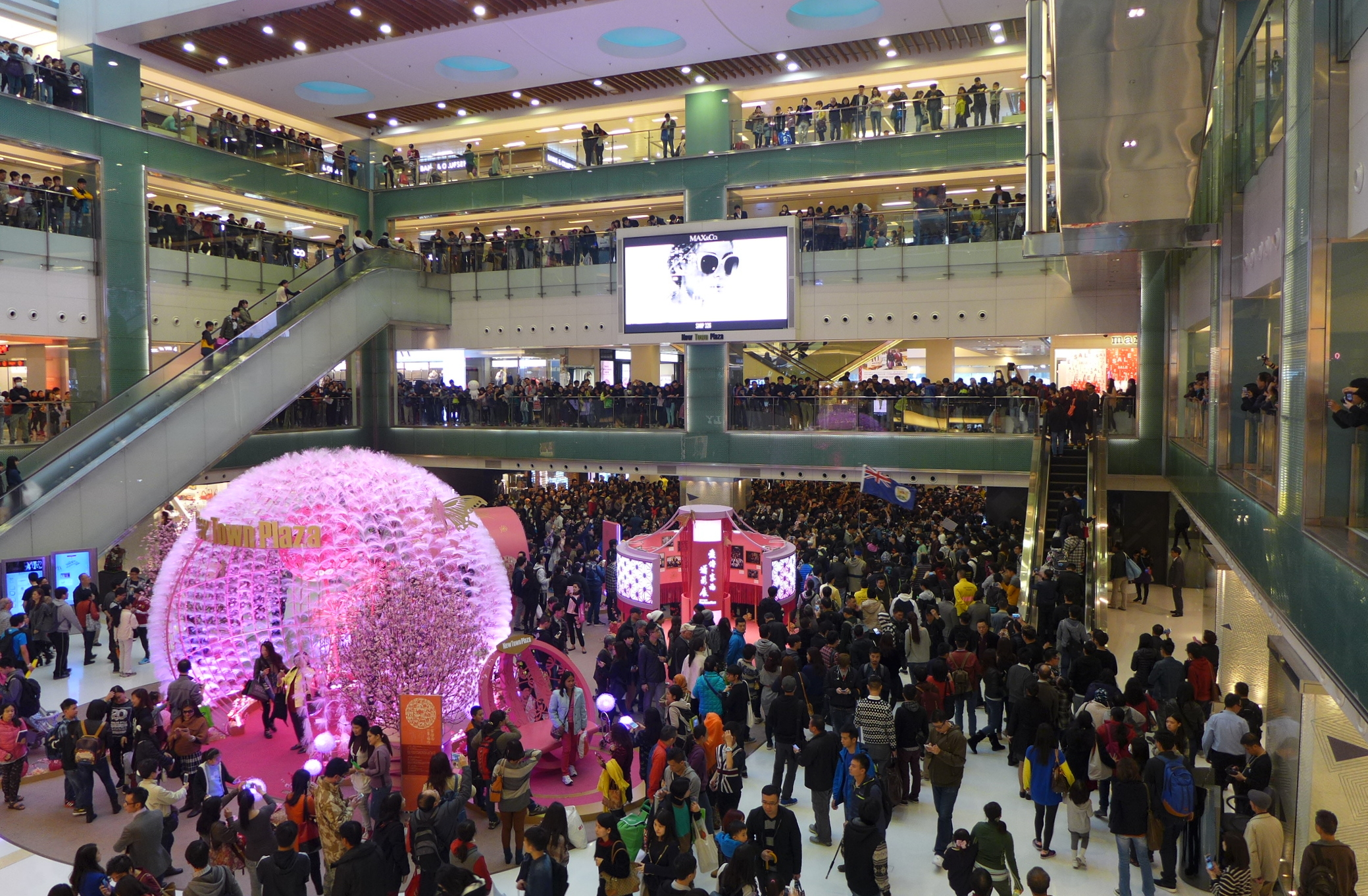 New Town Plaza Protes